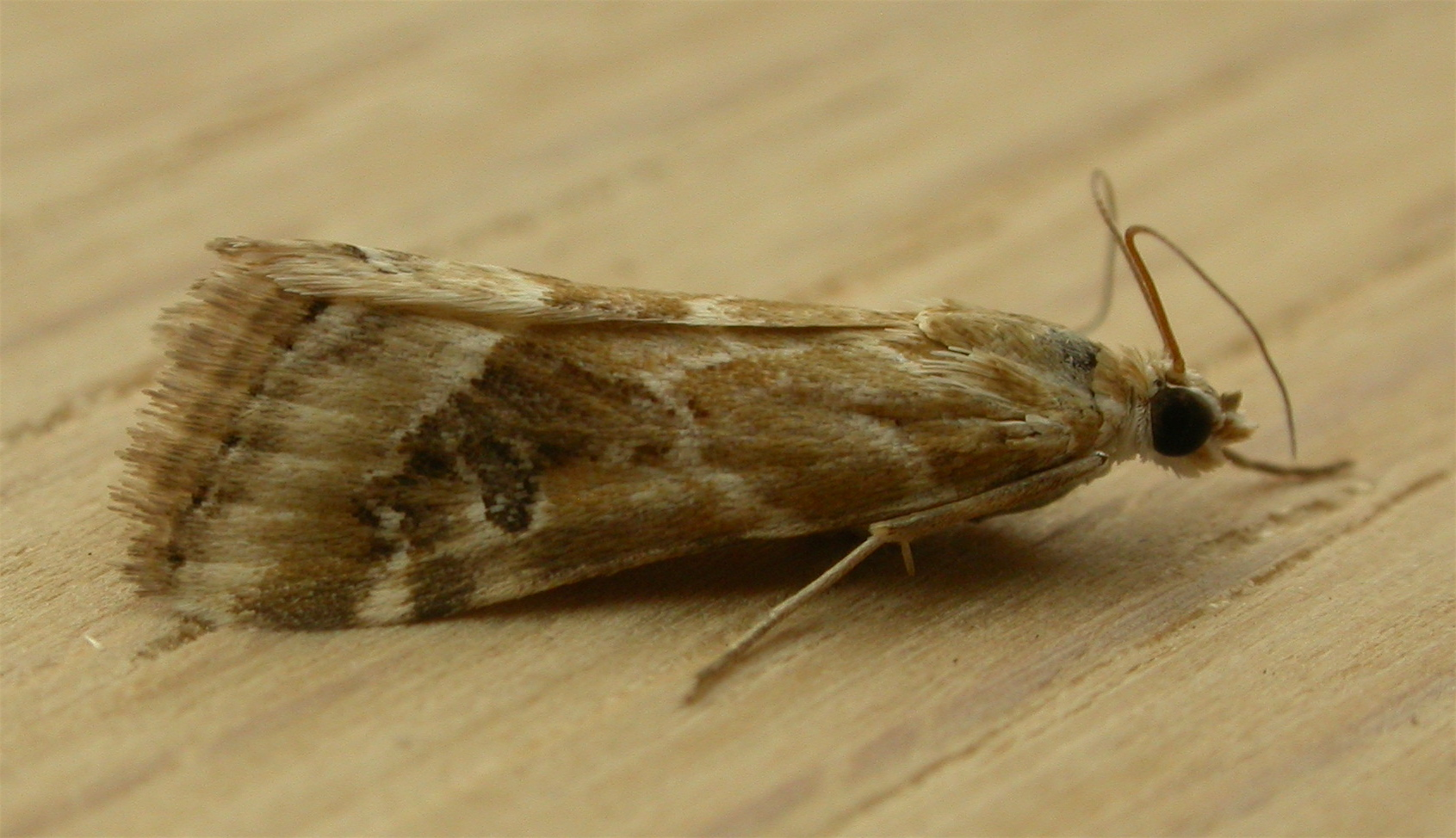 A Hellula hydralis in Australia.